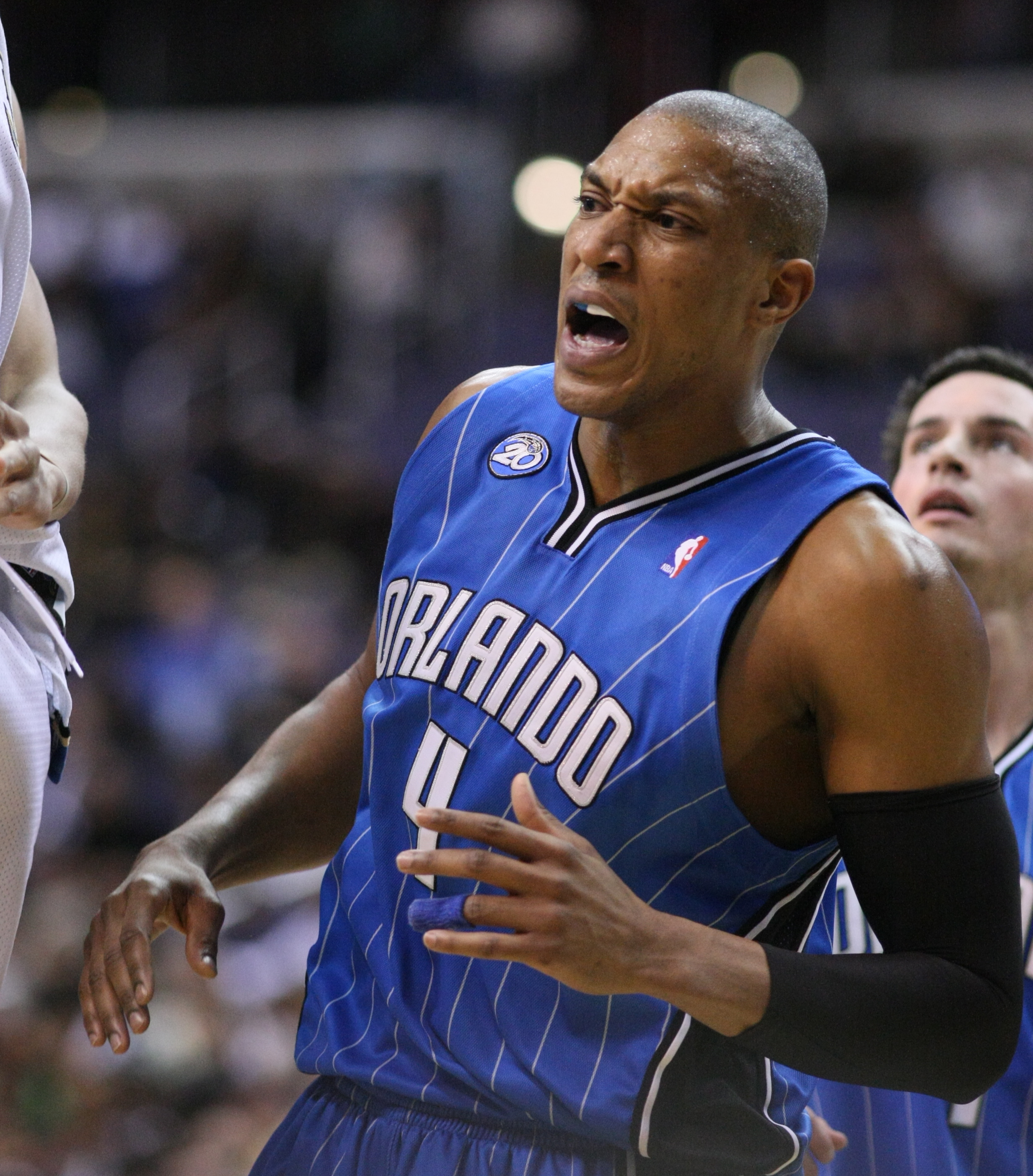 Tony Battie at the Washington Wizards v/s Orlando Magic game on 11/27/08